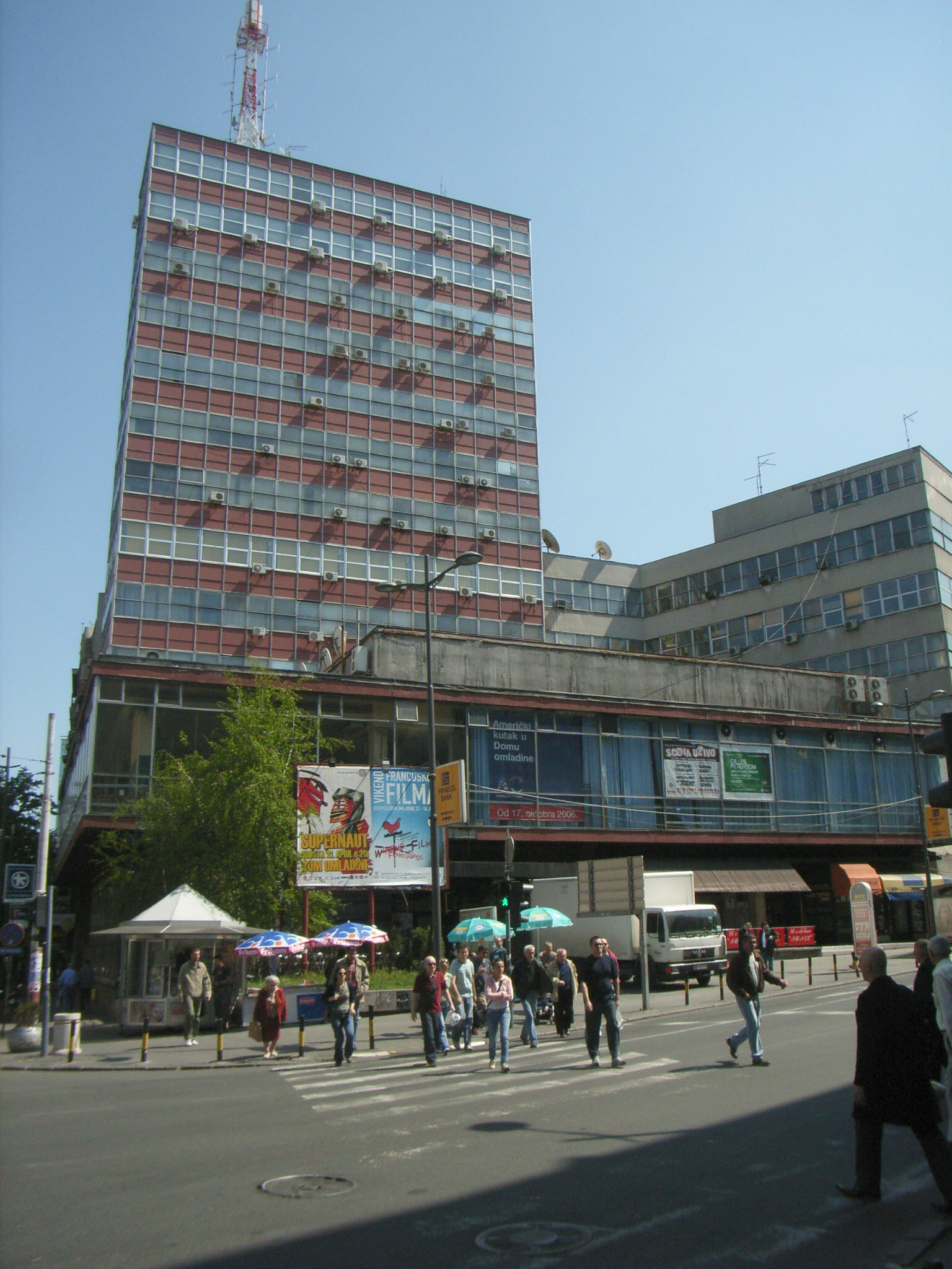 Dom Omladine (House of the Youth) in Belgrade, Serbia